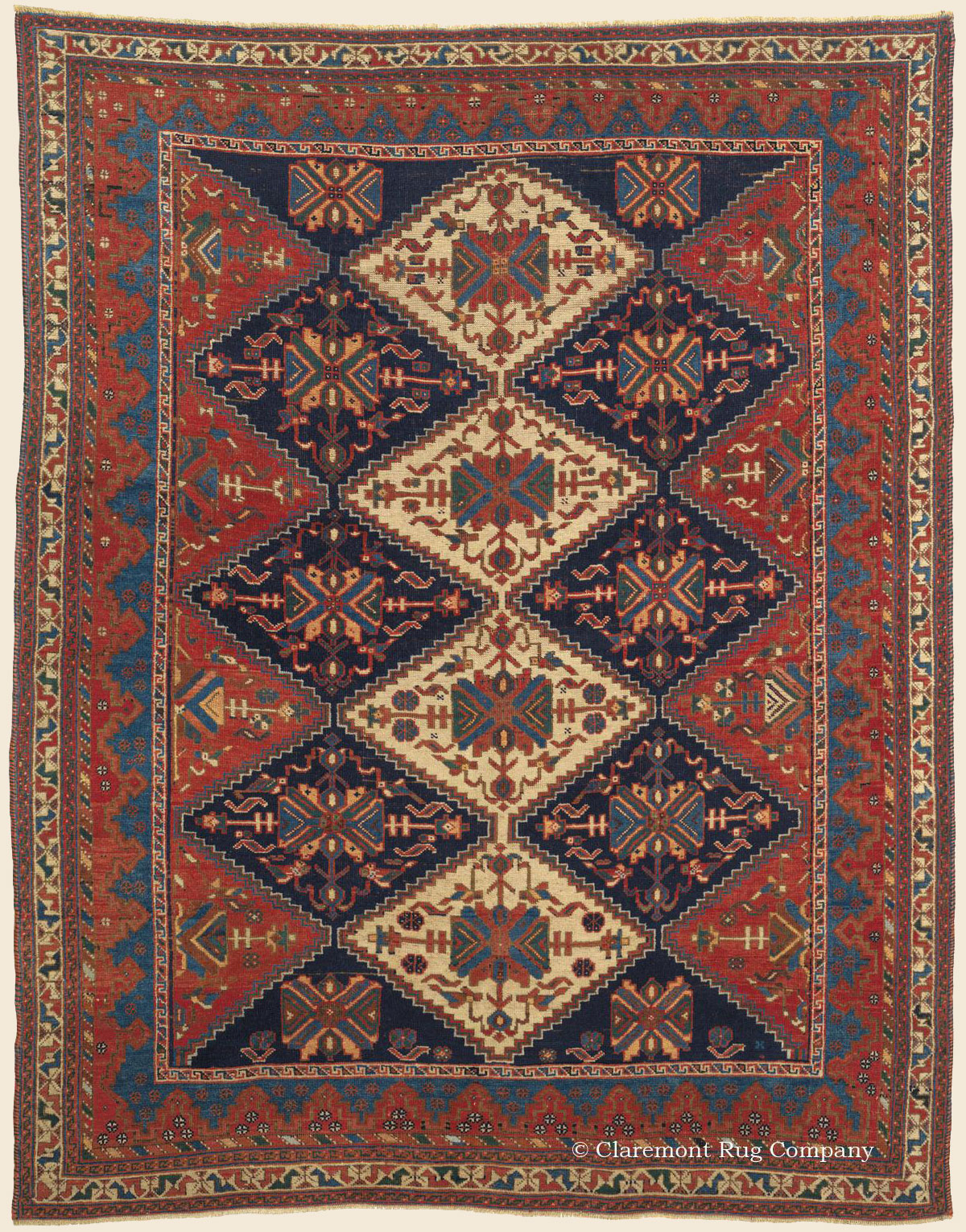 Antique 3rd Quarter, 19th Century Southeast Persian Afshar Carpet 4ft 5in x5ft 10in